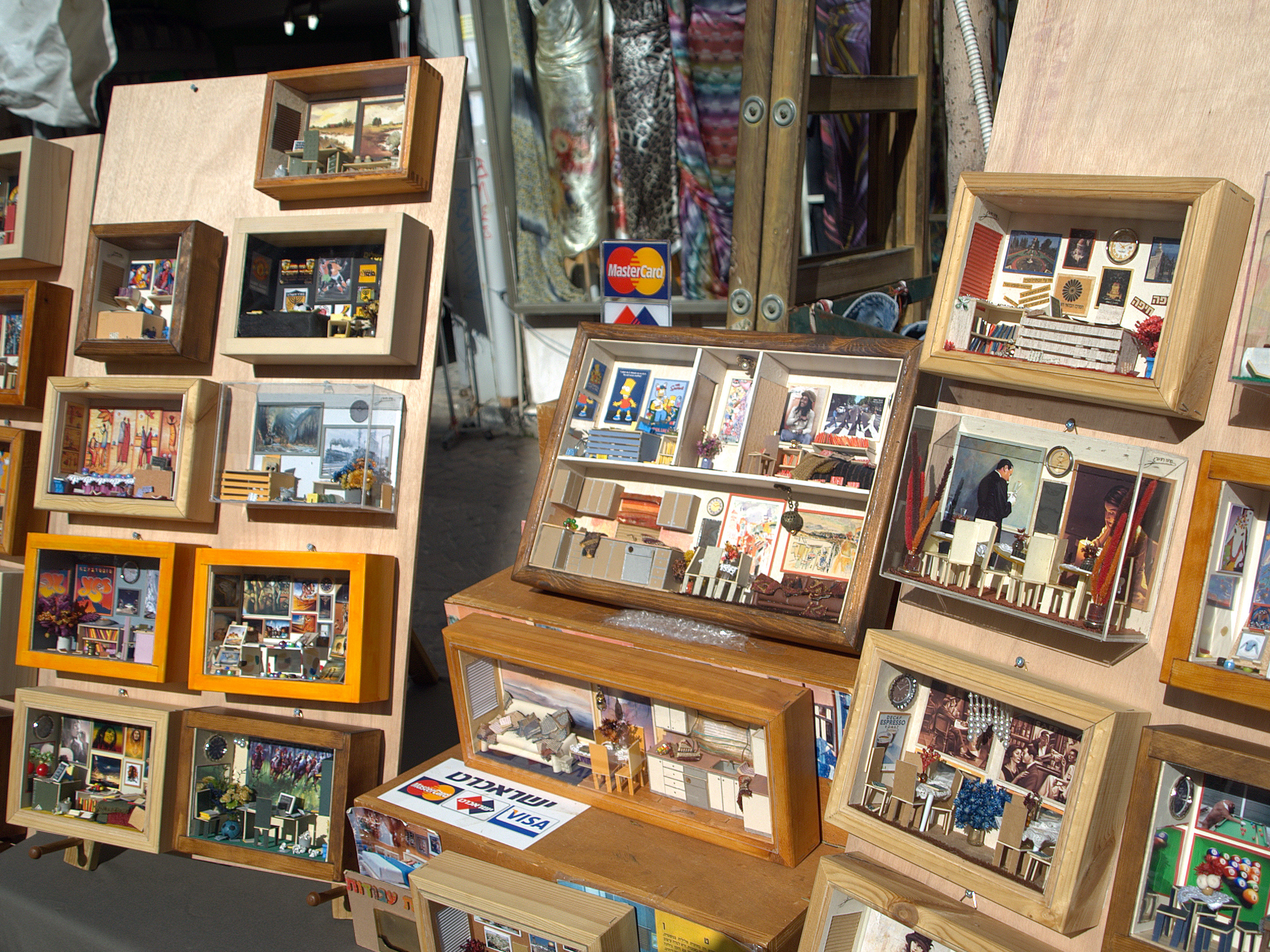 Dioramas on sale in Tel Aviv, Israel